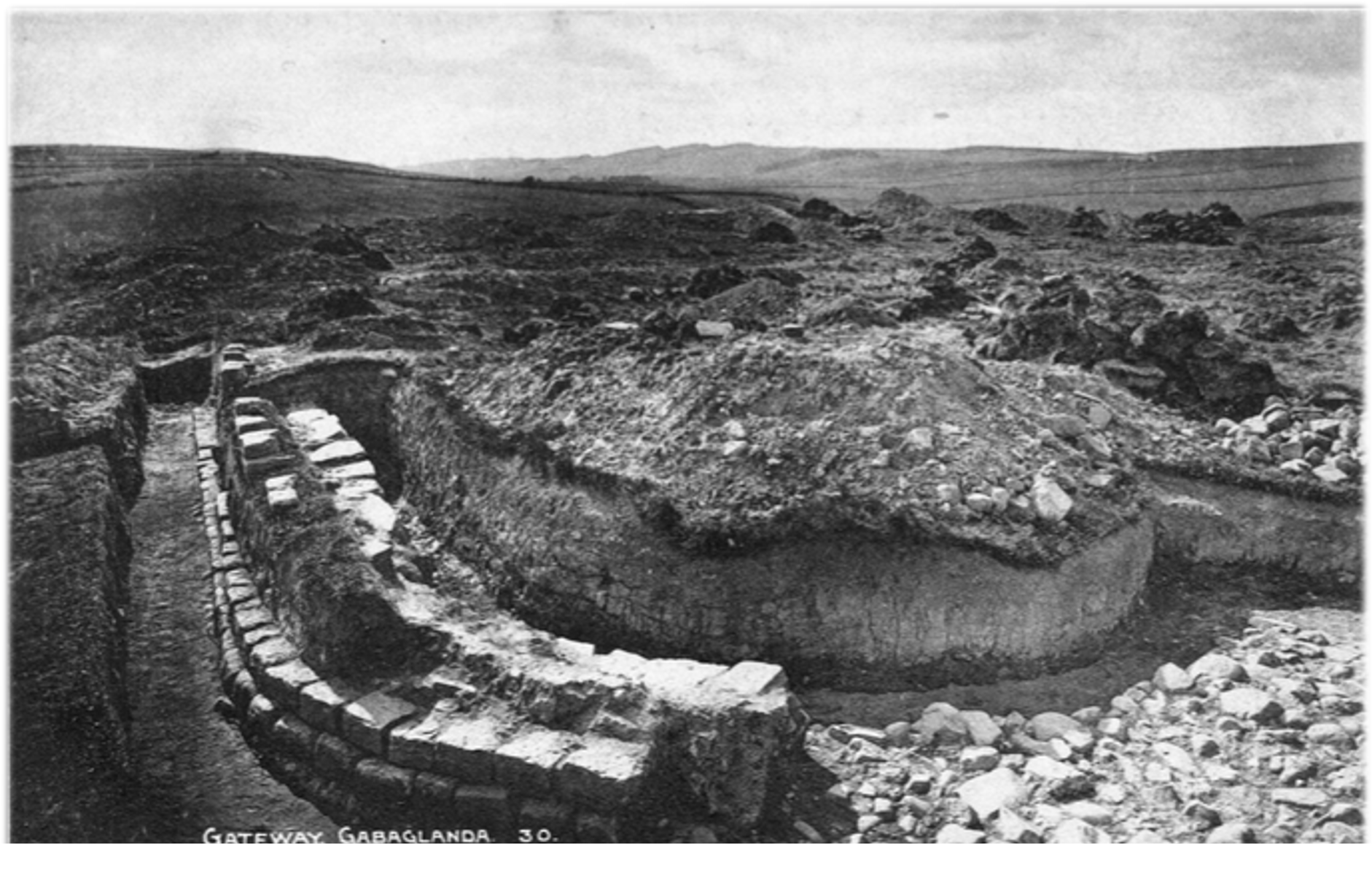 J. P. Gibson's postcard (No.30) of his and F. G. Simpson's 1907-1908 excavations at the Stanegate fortlet of Haltwhistle Burn (the name Gabaglanda is now thought spurious). The western side of the south gateway is shown, with its unusual inward-curving curtain wall. The use of a wall-chasing trench is apparent in this view, separating the rampart material from the curtain wall. Looking W